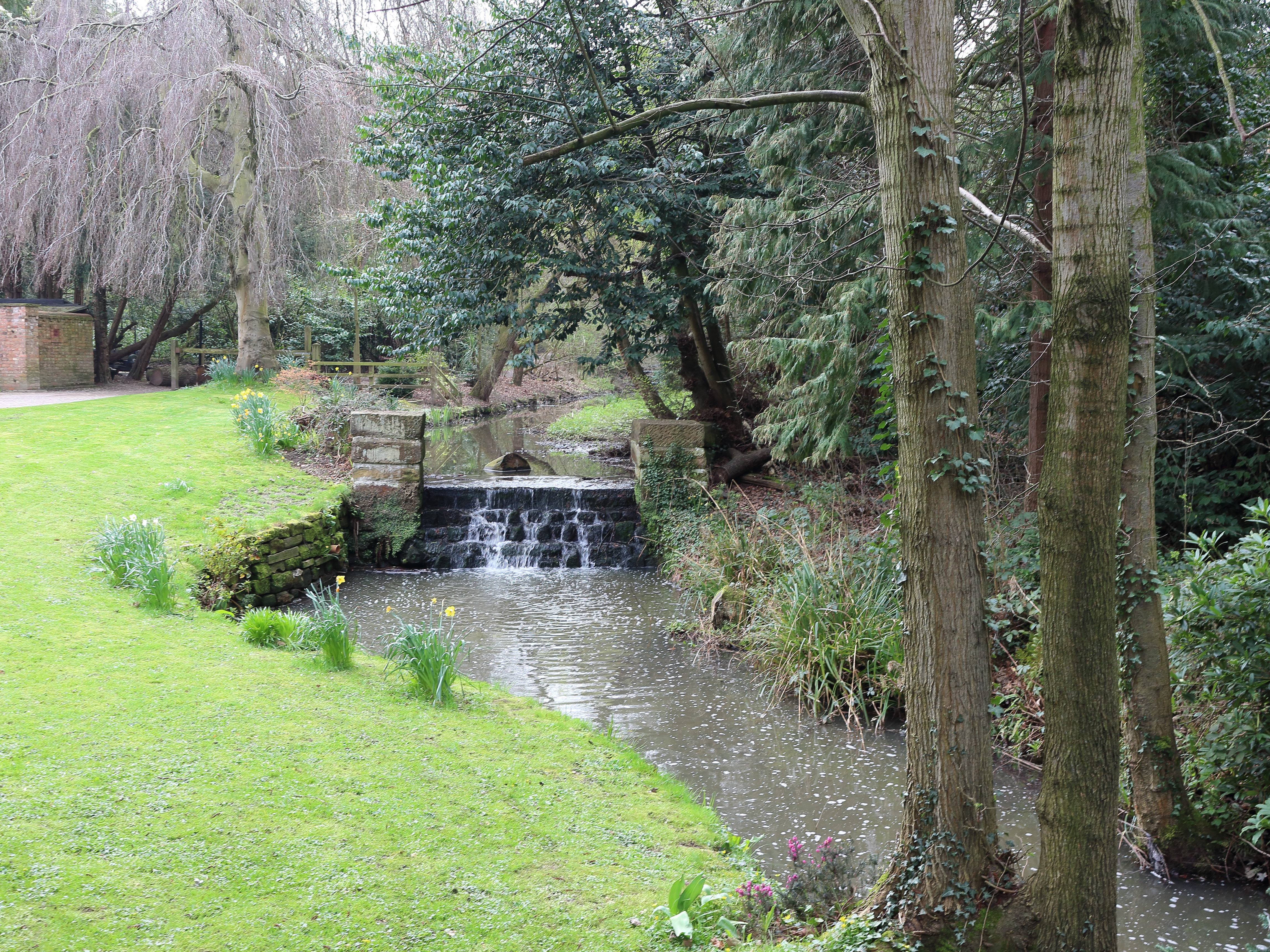 Arrowe Brook flows north towards Arrowe Brook Road over this artificial waterfall